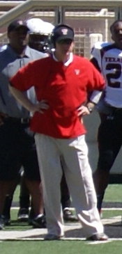 Texas Tech Red Raiders football defensive line coach Sam McElroy at the 2011 Spring Game